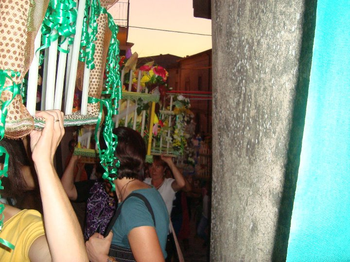 Saint Roche in Grisolia